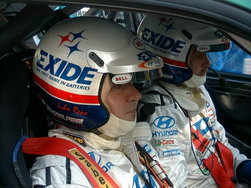 World Rally Championship WRC Rally Finland 2001